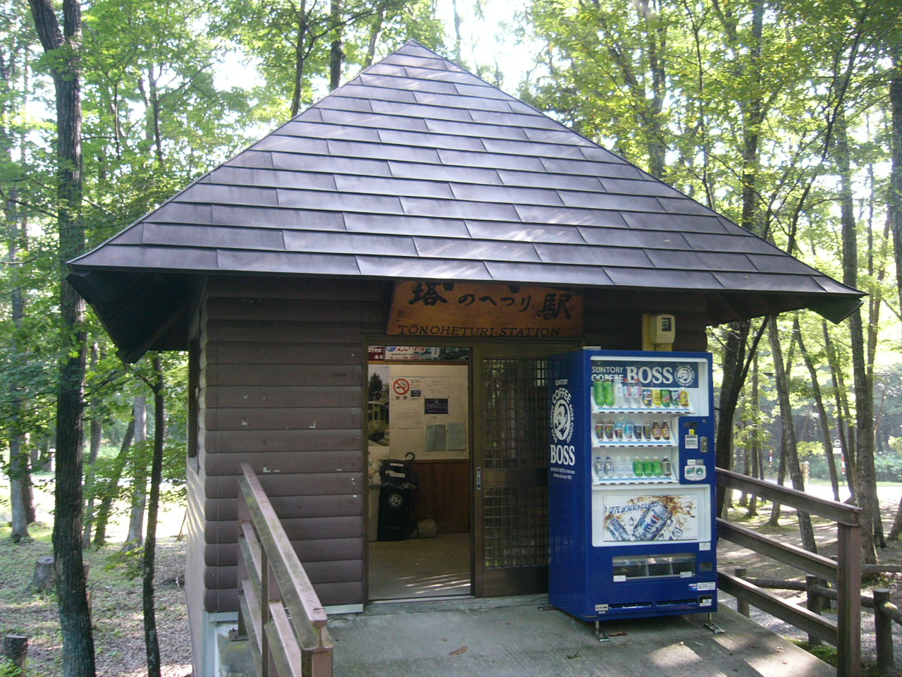 Tonohetsuri Station